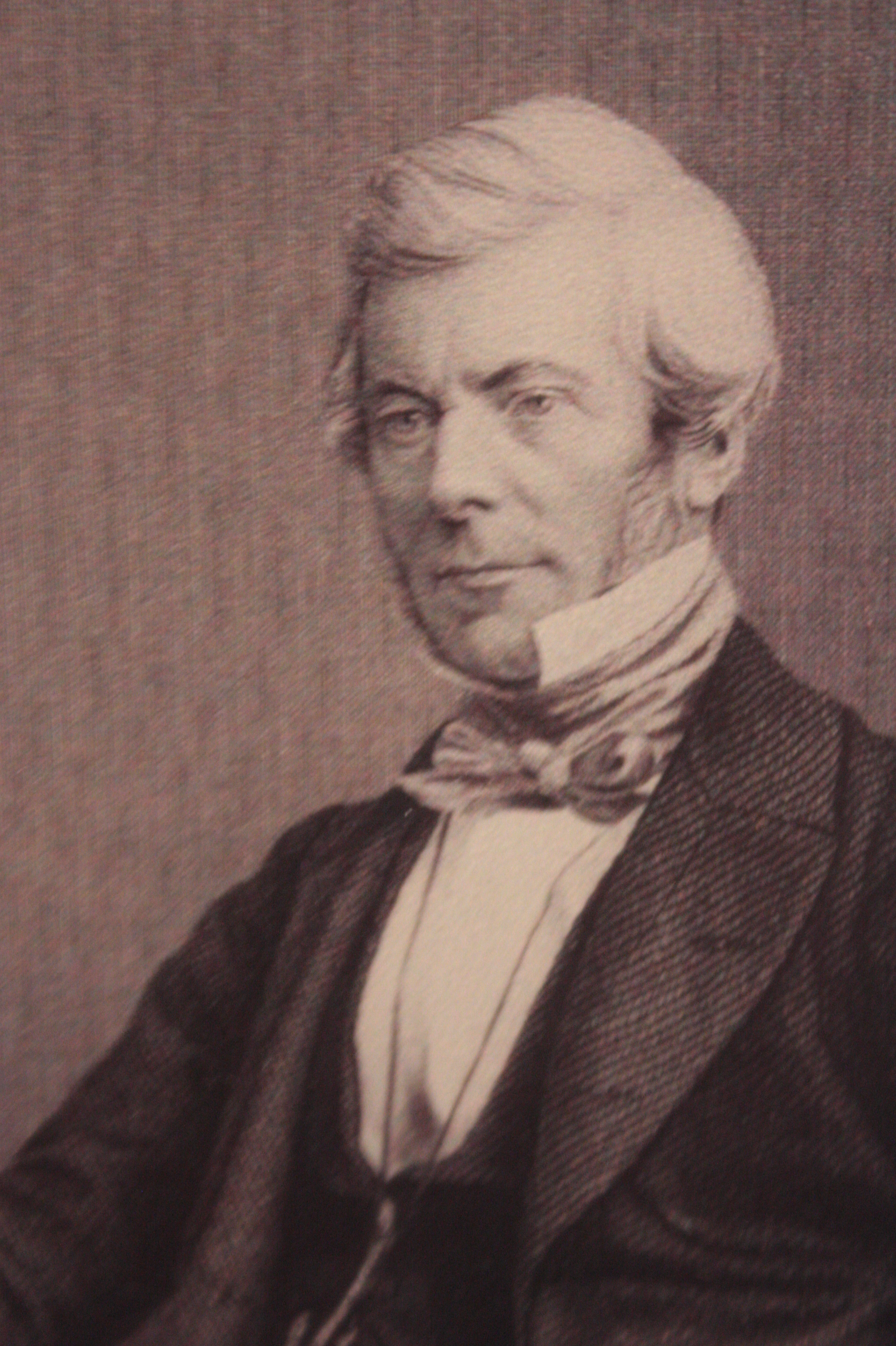 Engraving of William Chambers c.1845, Royal Museum of Scotland